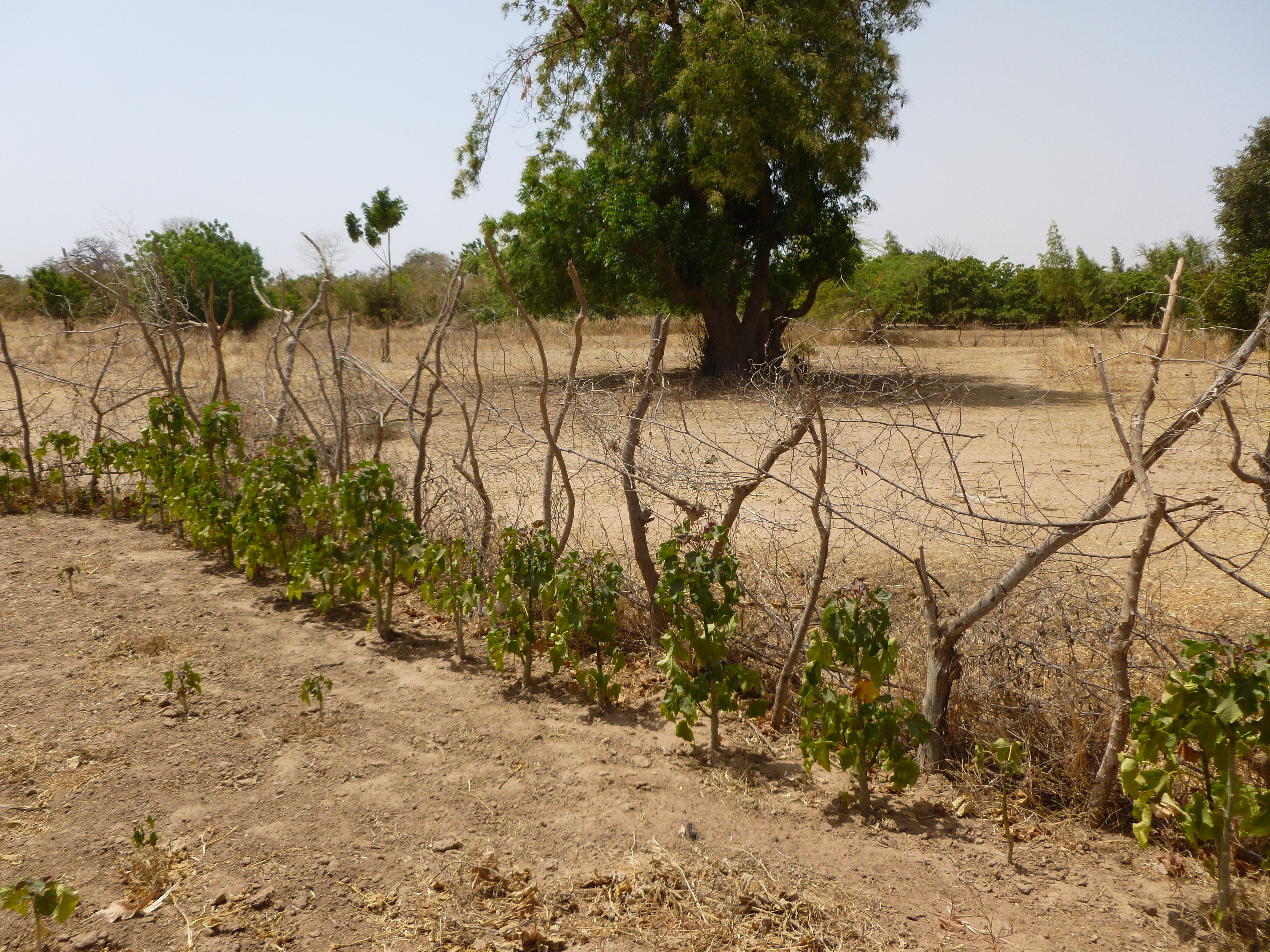 A Jatropha curcas living fence, planted last year, will act as an unpalatable barrier to livestock after the coming wet season.